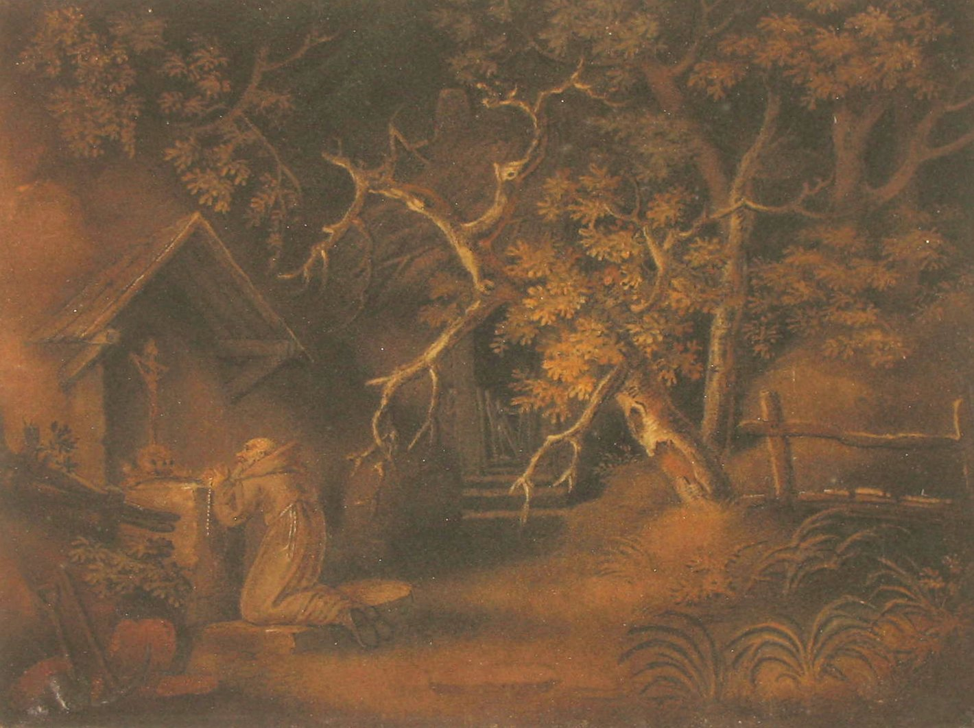 "The Hermit"(59cms by 44cms) is a Sand Painting by Benjamin Zobel(1762-1830), probably an early work by this Georgian sand artist using a mix of white lead and gum arabic to stick the sand to the baseboard - hence the blackened colours of the background. Collection: Brian Pike, sandpainter.